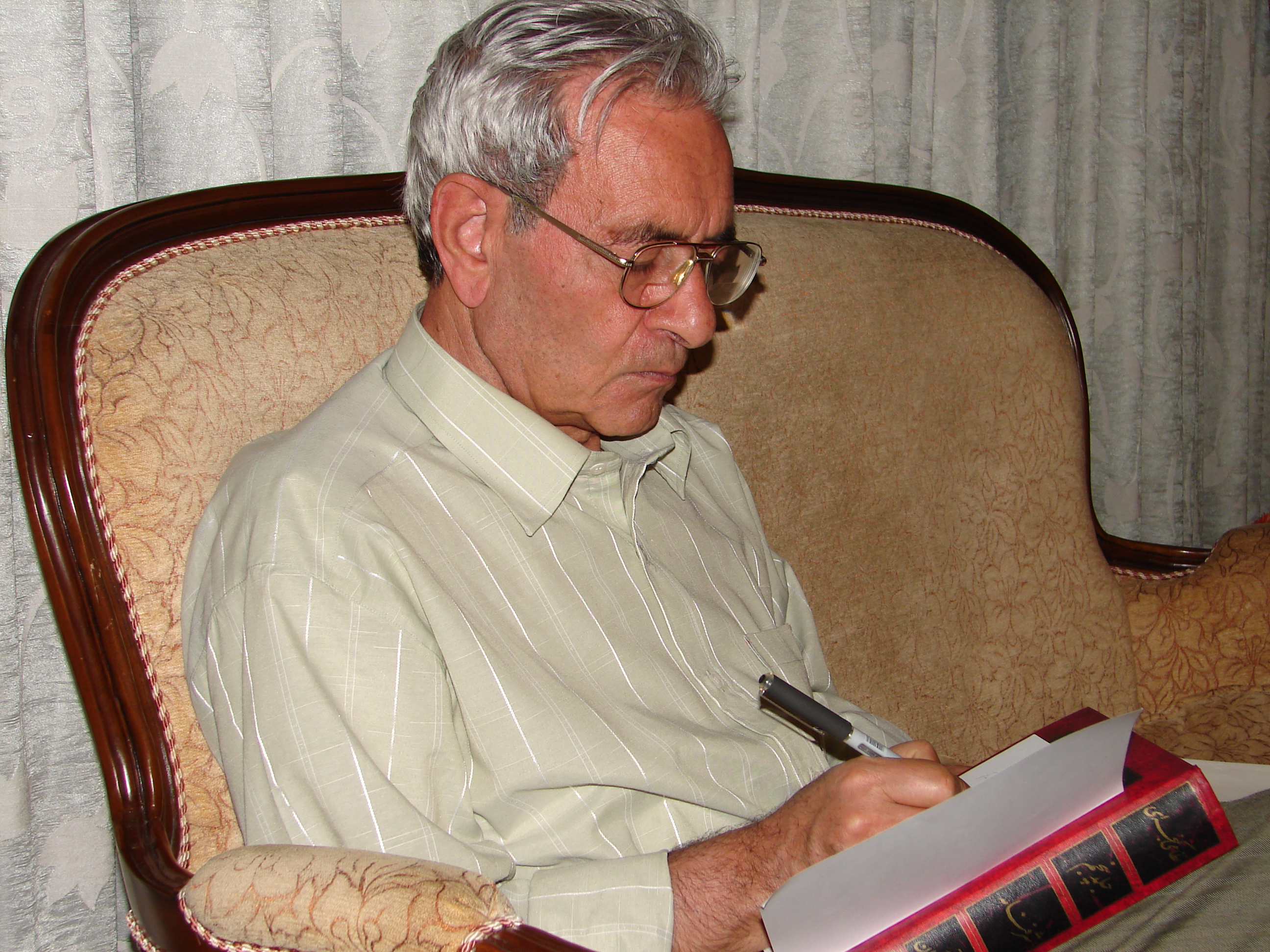 Portrait of Behrooz Servatian, Iranian scholar, Researcher and Literature Critic.